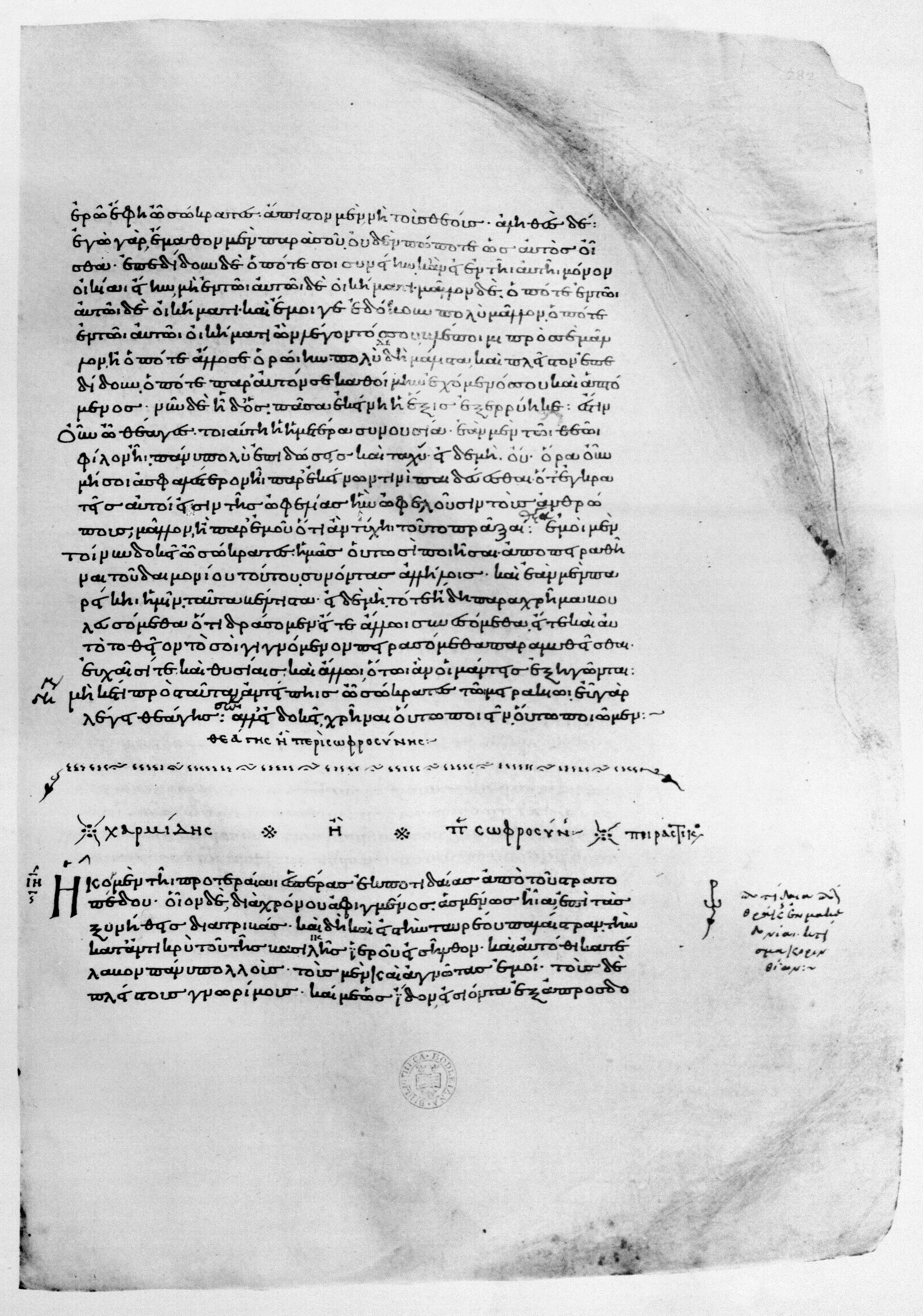 Page of the Codex Oxoniensis Clarkianus 39 (Clarke Plato). Dialogue Charmides.